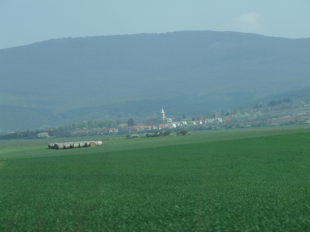 The village of Hejce, as could be seen from a road nearby.